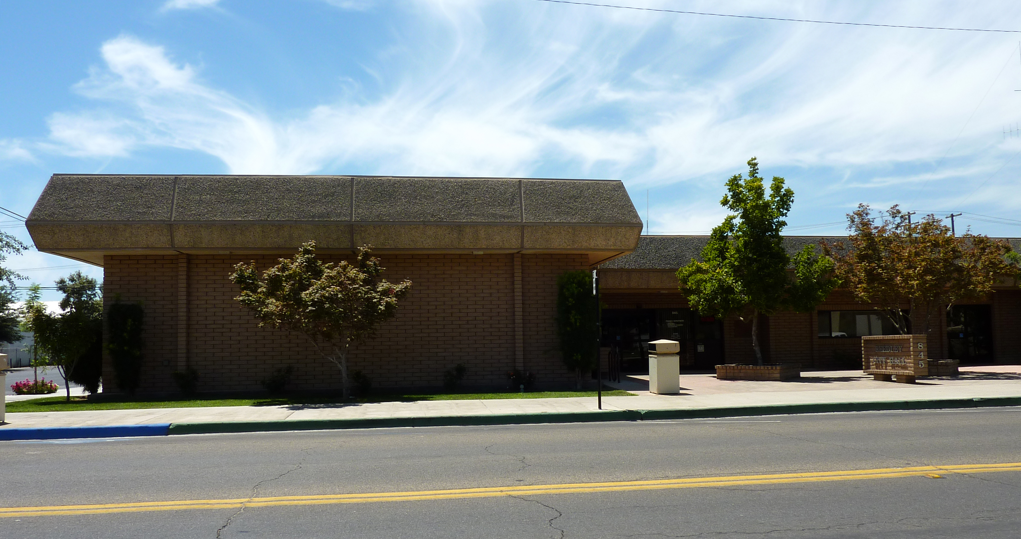 Reedley City Hall — Reedley, Fresno County, California.